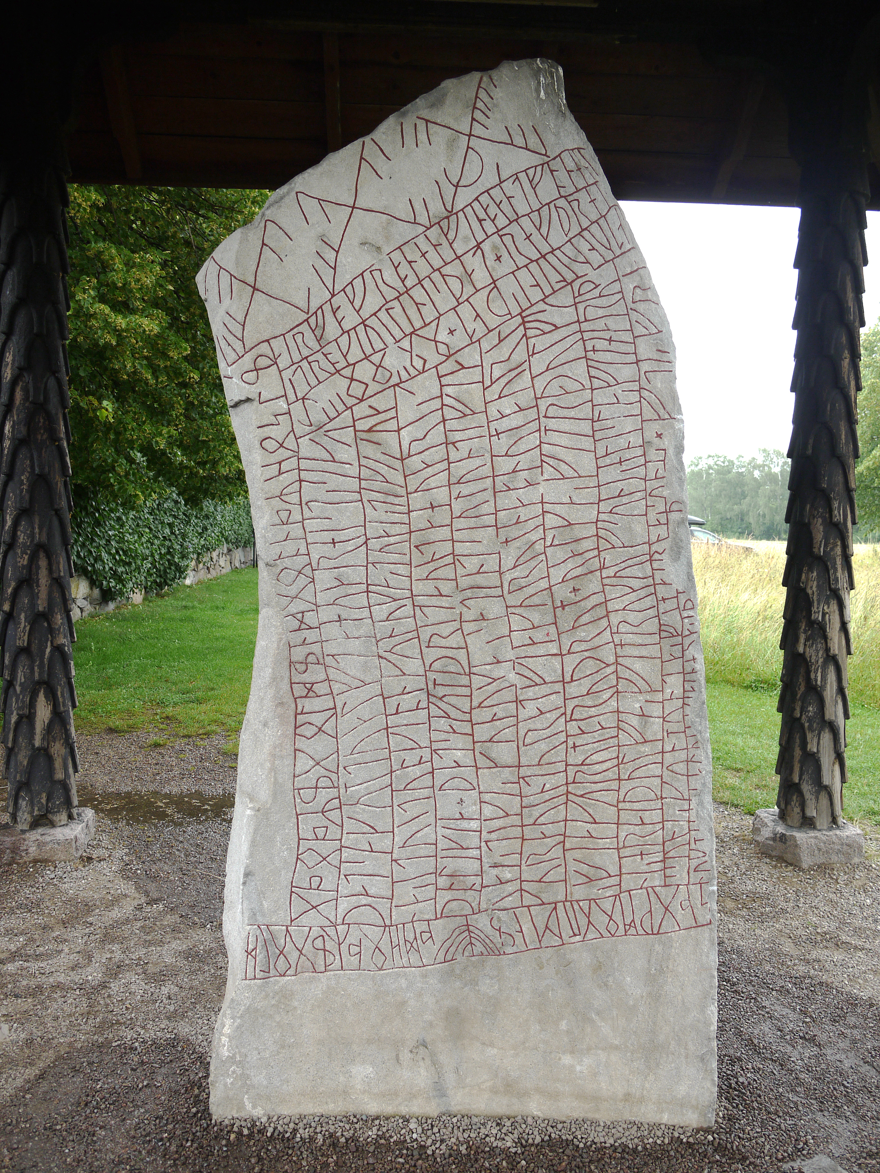 Rökstenen, Ödeshögs kommun, Sverige. View of the west side. ÖG 136